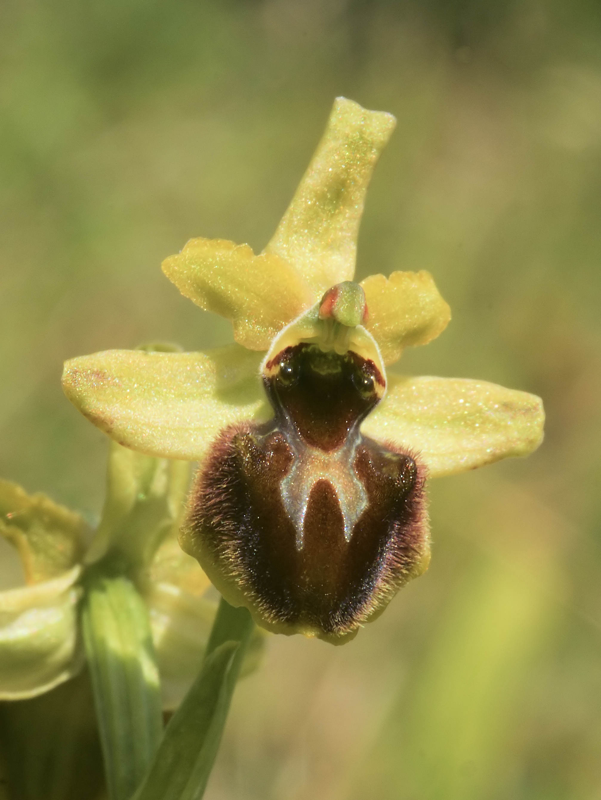 Small Spider Ophrys at Riez de Boffles, France.